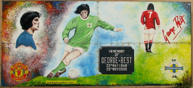 George Best mural, Portavogie. A tribute to George Best that has been painted on a wall at Harbour Road in Portavogie. Since the death of Best in 2005 similar murals have sprung up in various locations across Northern Ireland - 1392923 1175018 571110.